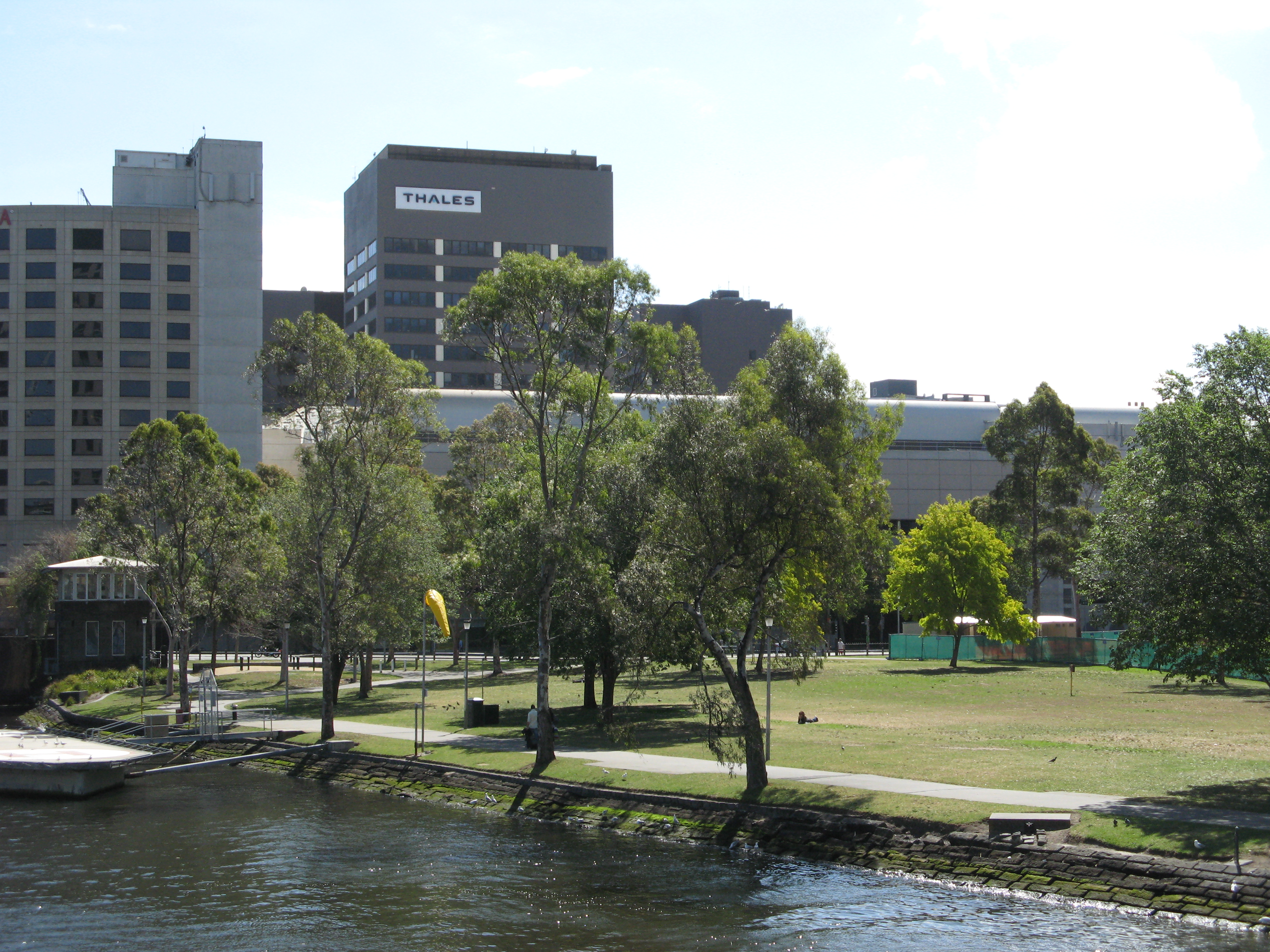 A view of Batman Park looking north-west from Kings Bridge. Photo taken by myself (= User:Nick carson) in December 2008.